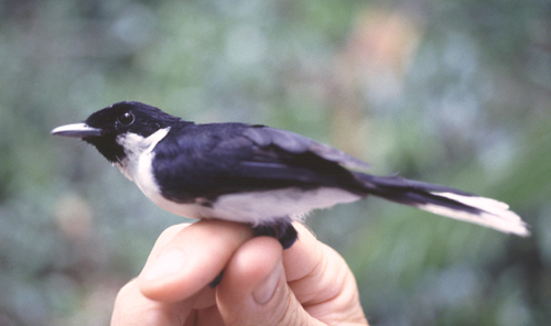 First picture of an adult Black-chinned Monarch (Symposiachrus/Monarcha boanensis) taken on the island Boano, 2 November 1994 by Kees Moeliker.